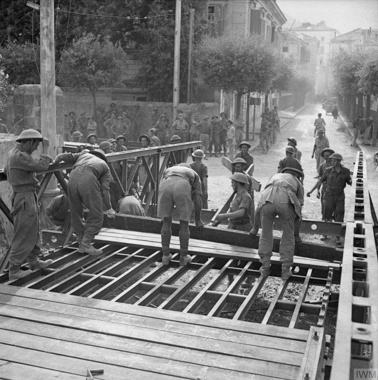 The British Army in Italy 1943 Royal Engineers constructing a bridge to replace one blown by the retreating Germans, 26 September 1943.